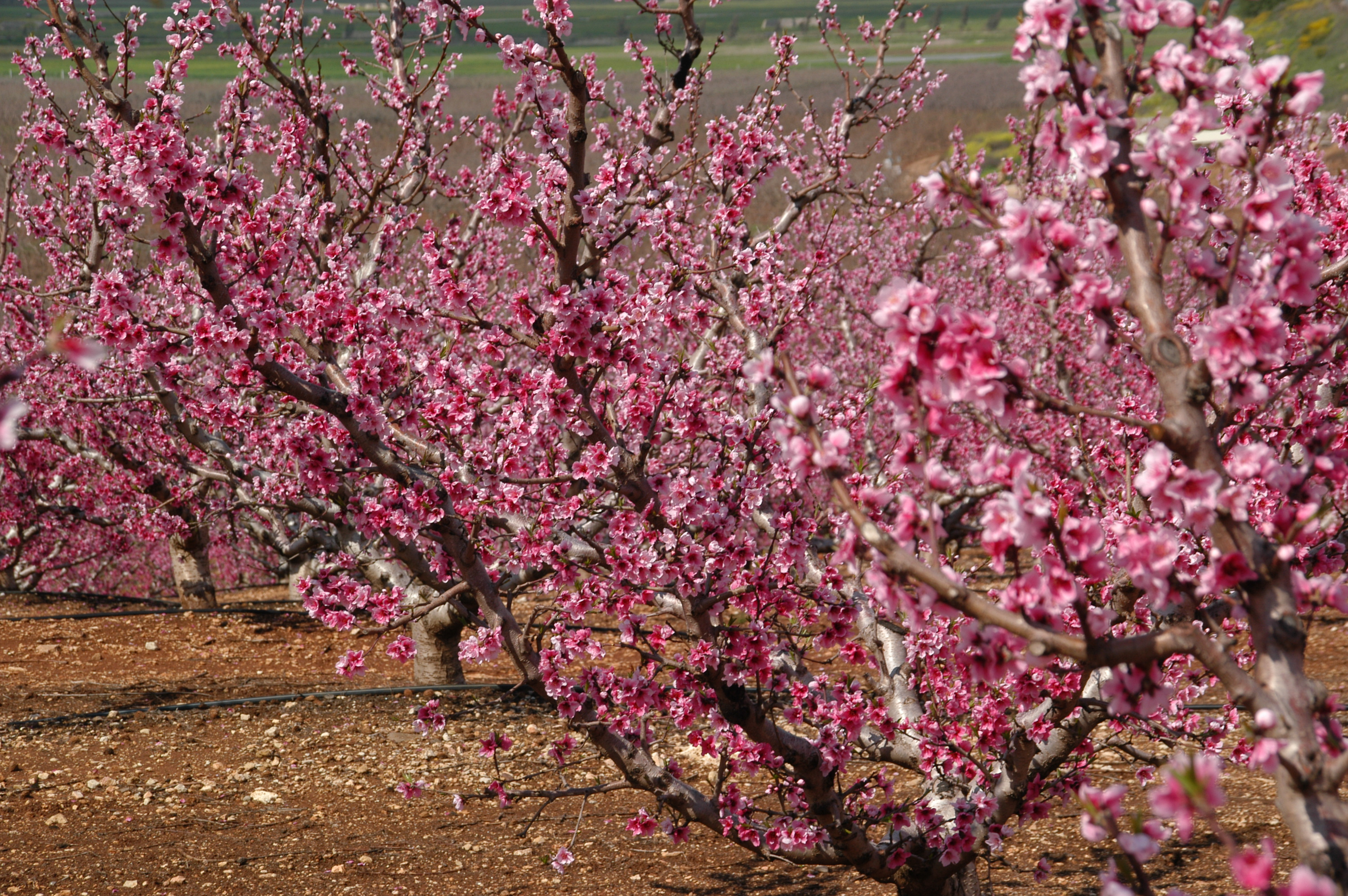 Plants of Israel